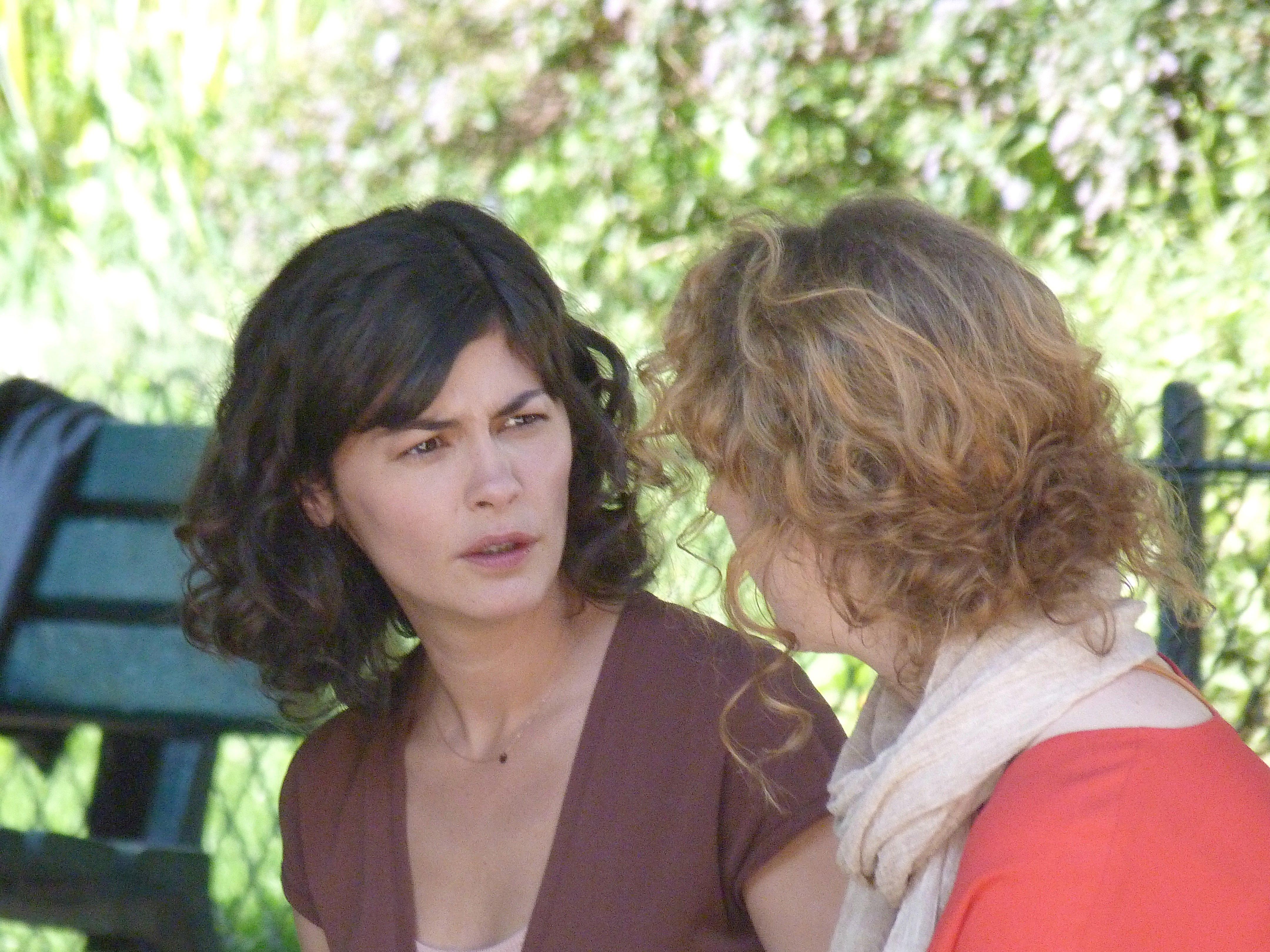 Audrey Tautou and Joséphine de Meaux on set of the film "La Délicatesse"